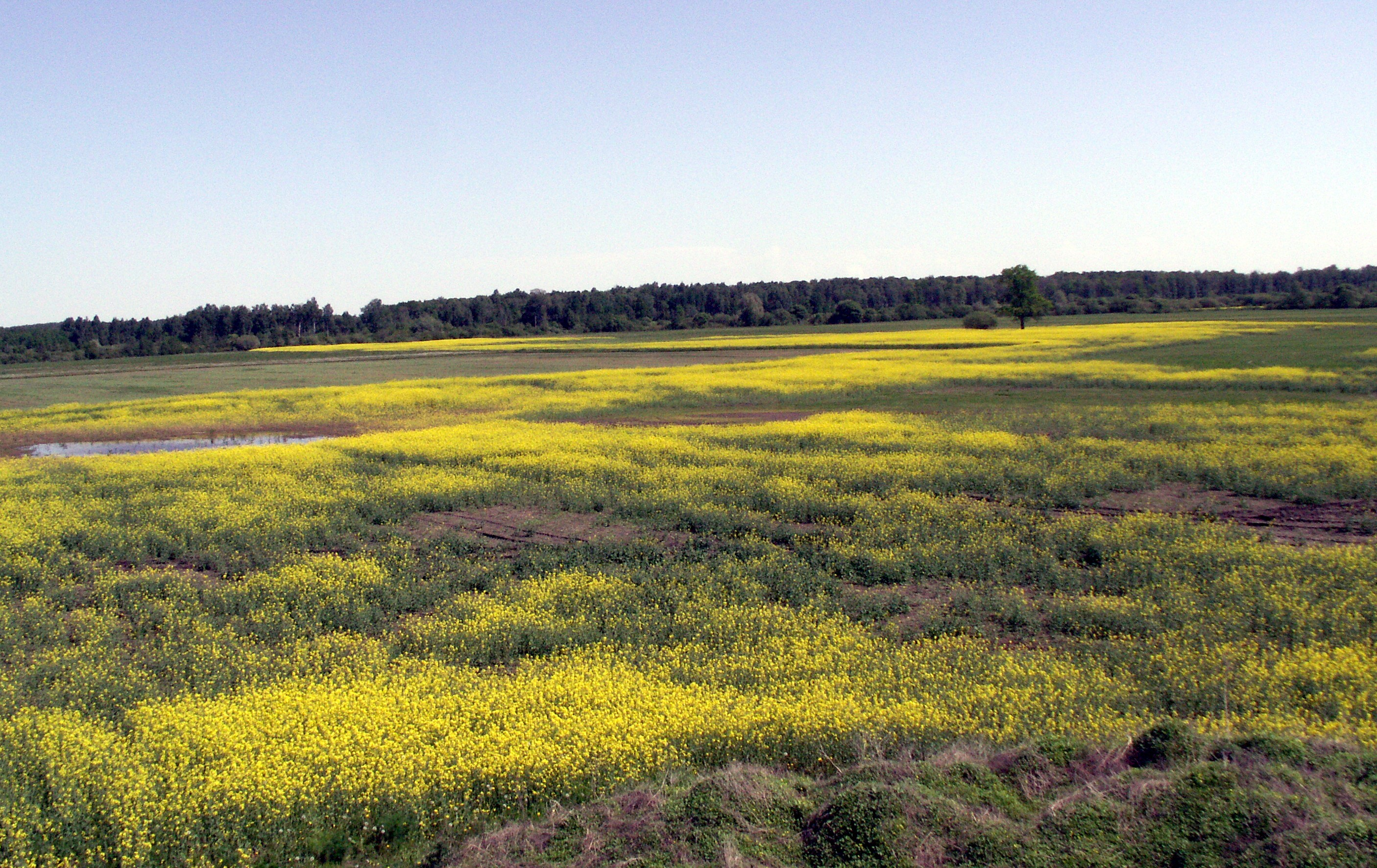 Place of Battle of Saule, Jauniūnai, Joniškis district, Lithuania